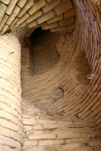 Interior staircase of the Minaret of Jam